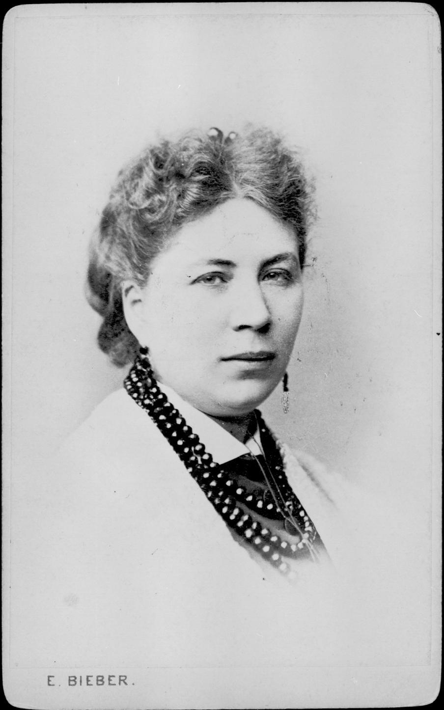 Désirée Artôt (1835–1907), Belgian mezzo-soprano.